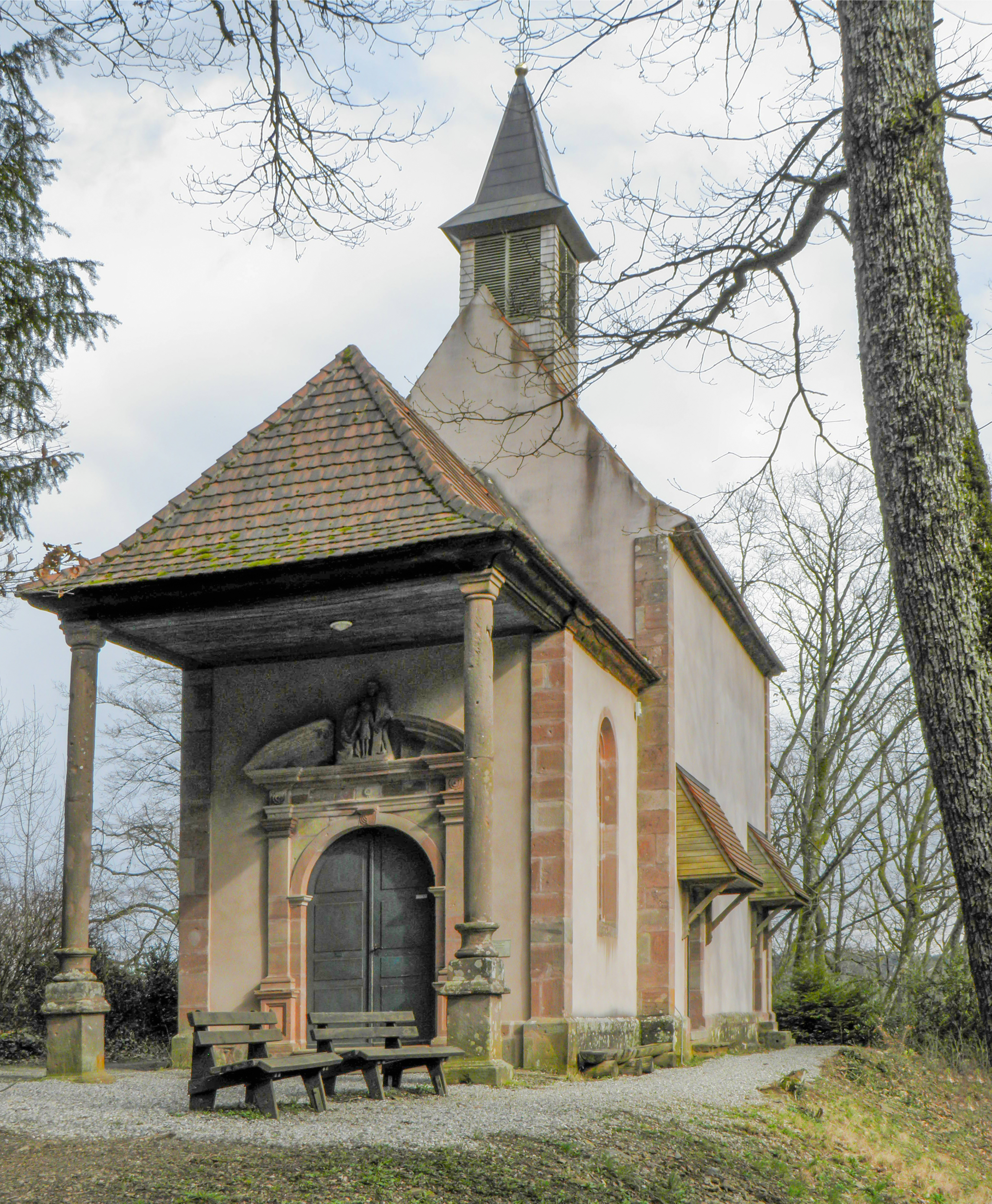 Chapel Notre-Dame-de-Lorette in Murbach (Haut-Rhin, France).